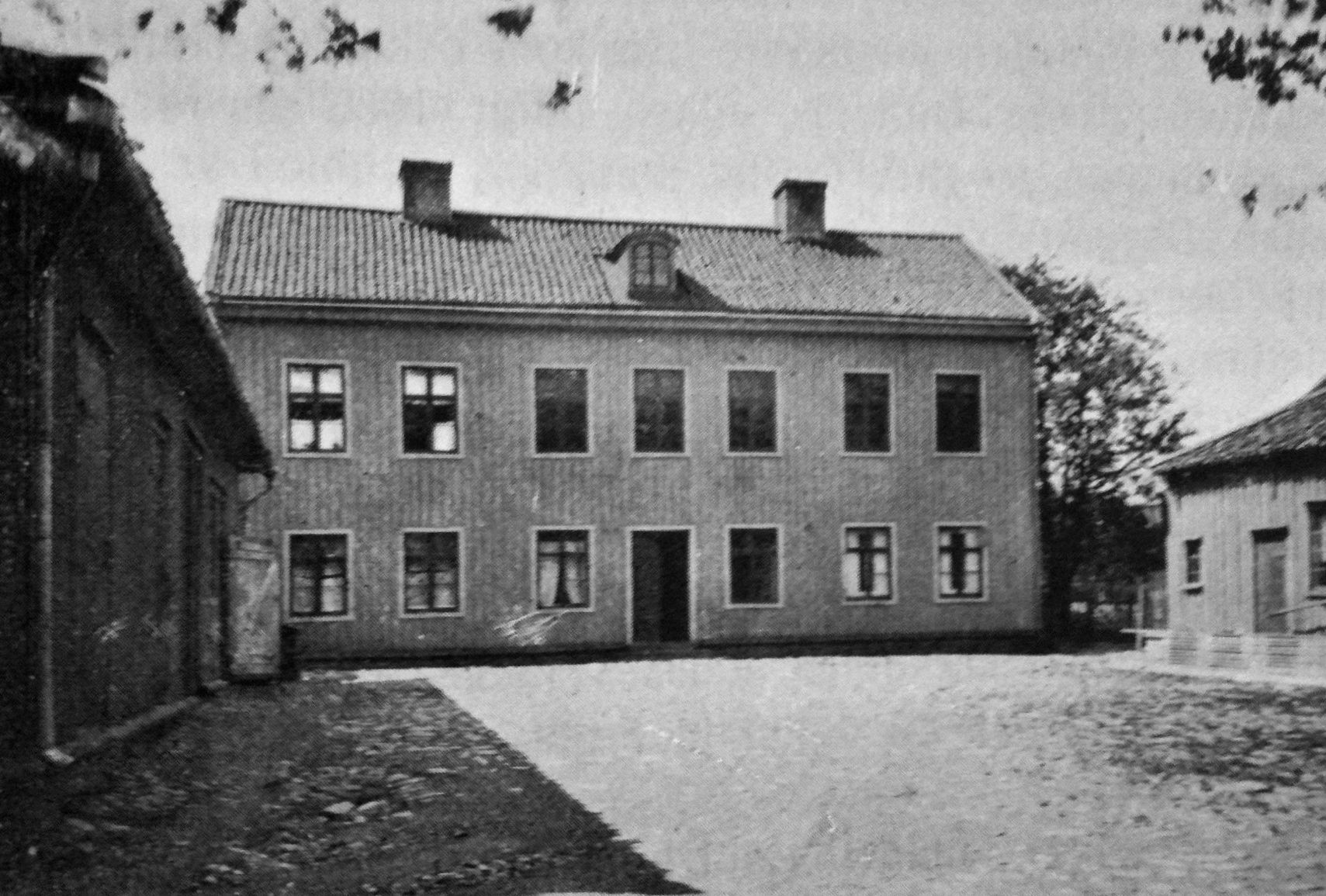 Södra Burgården, a mansion in Gothenburg, Sweden.